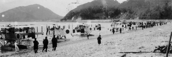 Row of nine Type 14 Reconnaissance Seaplanes on the beach of Tonomi, east of Hōfu, Yamaguchi Prefecture in 1927. Tailcodes and shipmanship (from left to right): ノトロ-10 assigned to seaplane carrier Notoro unknown (hidden by ノトロ-10, maybe another Notoro?) ノトロ-23 assigned to seaplane carrier Notoro ノトロ-11 assigned to seaplane carrier Notoro ナガト-1 assigned to battleship Nagato ムツ-1 assigned to battleship Mutsu フルタカ-1 assigned to heavy cruiser Furutaka カコ-1 assigned to heavy cruiser Kako unknown